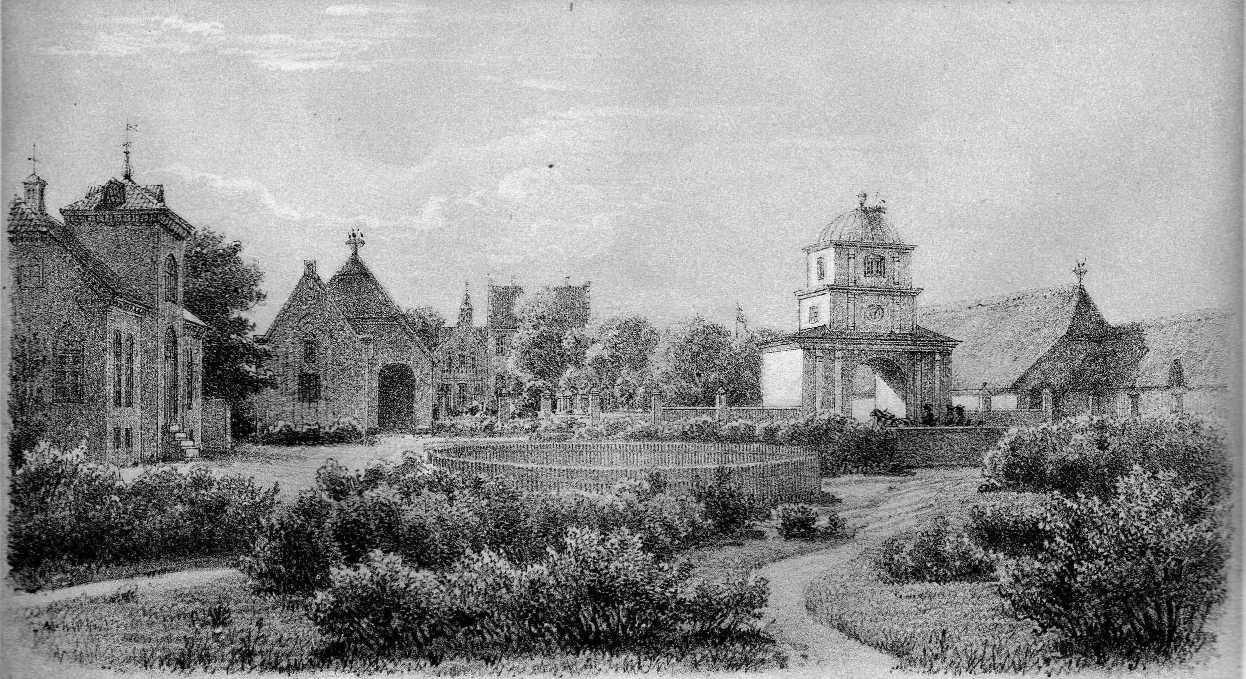 Scanned by myself from a copy of the old book in 2007. The book was graciously lent to me by Det Kongelige Garnisonsbibliotek.